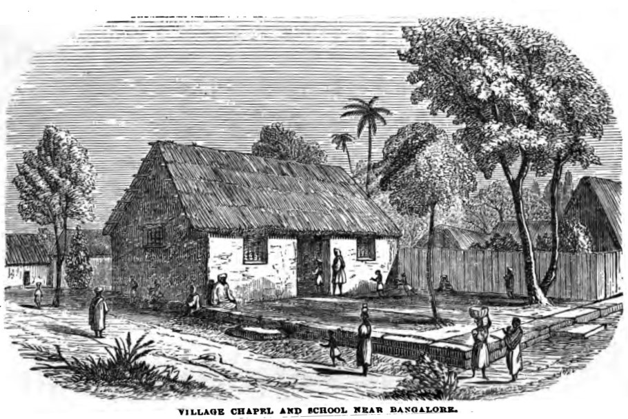 Village Chapel and School Near Bangalore (March 1859, XVL, p.24, Sarah Sanderson, 24 November 1858)